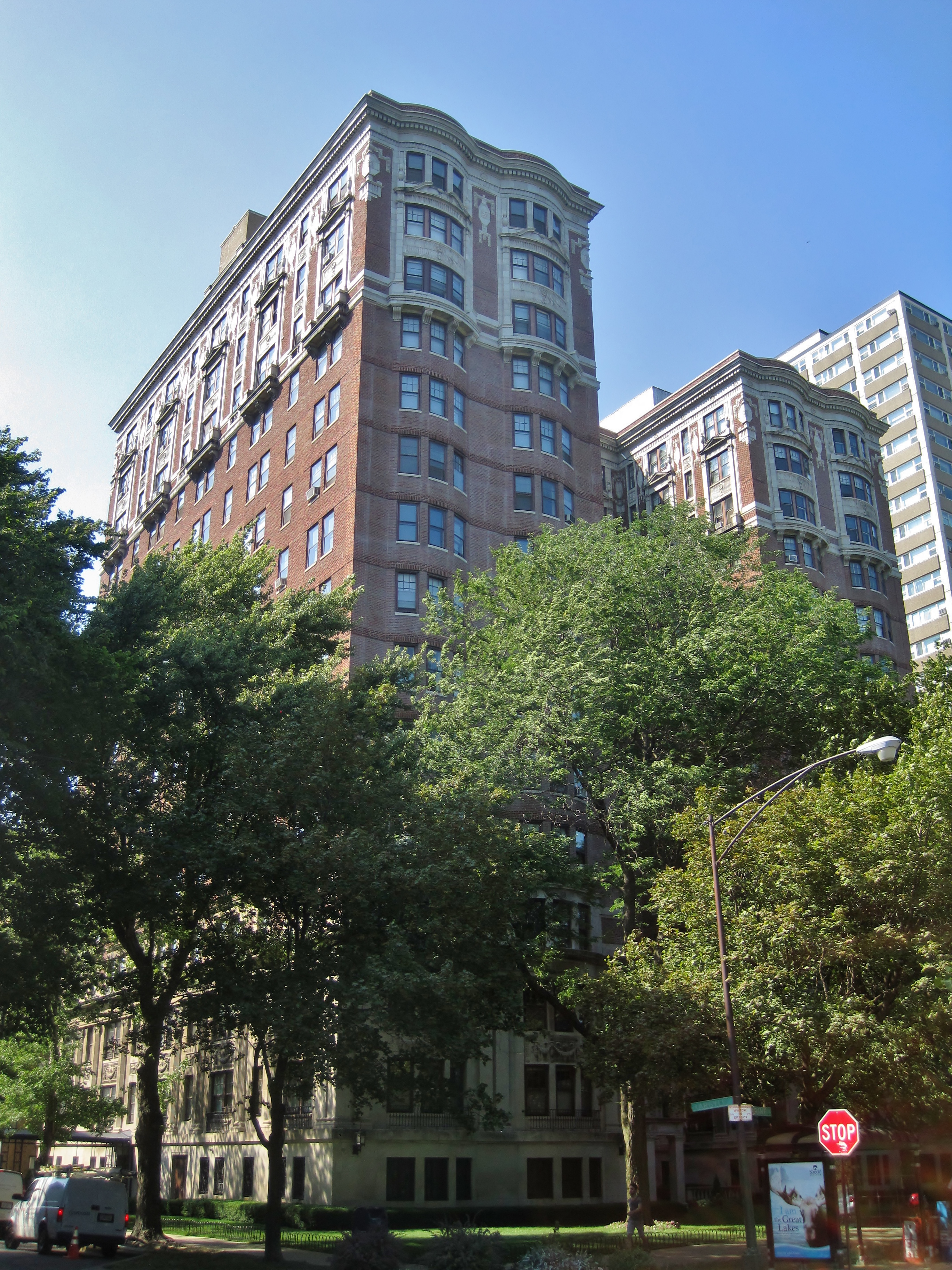 The Aquitania in Chicago (1923). It was commissioned by early silent film pioneer George Kirke Spoor, intended to be fitting for his stars.